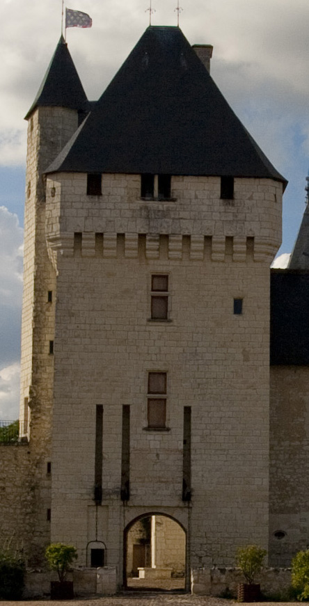 @chateaudurivau